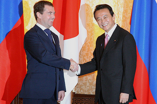 YUZHNO-SAKHALINSK. With Japanese Prime Minister Taro Aso.